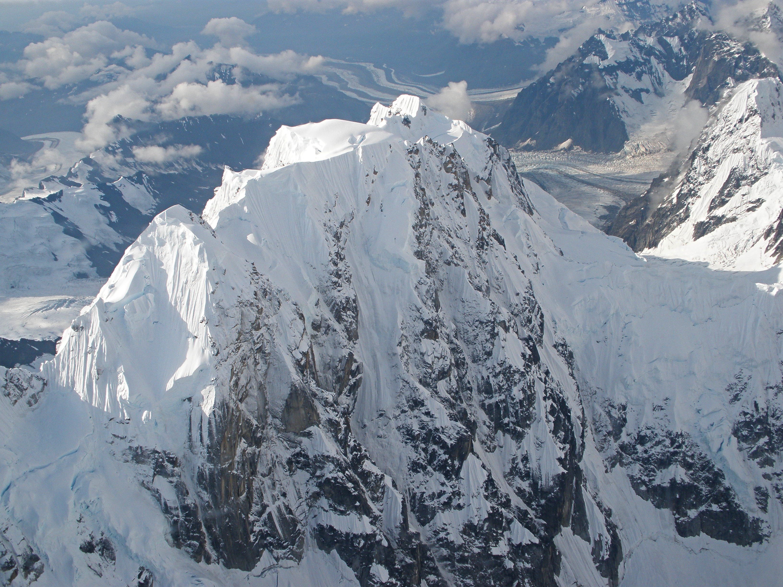 The Rooster Comb aerial view. Alaska Range